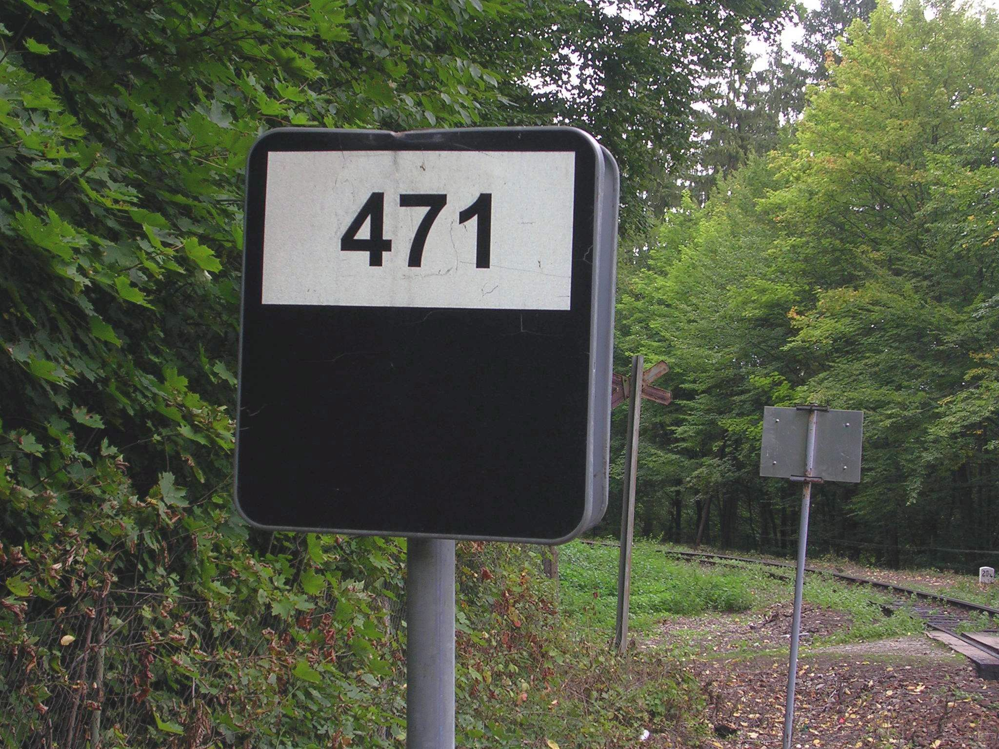 Railway gradient marker: level for 471 m. Near Jílové u Prahy, Czech Republic.